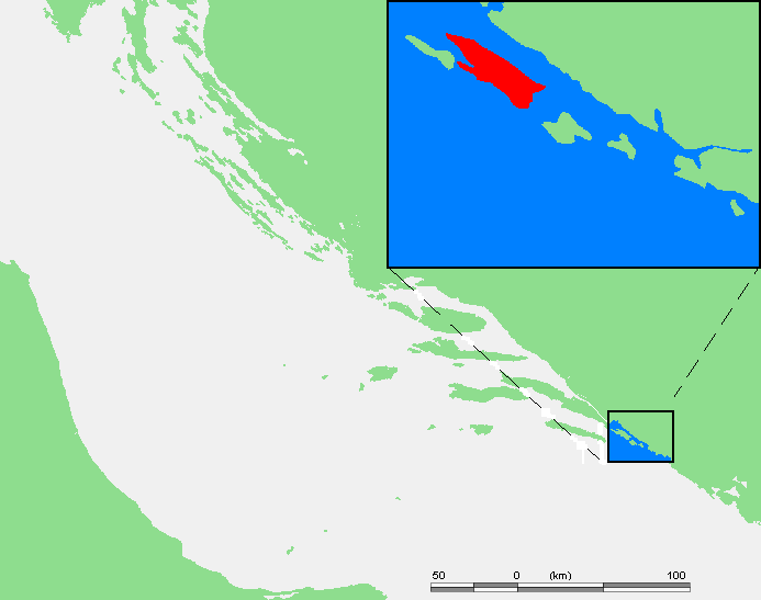 Island of Croatia - Croatia - Elafit Islands - Sipan.PNG